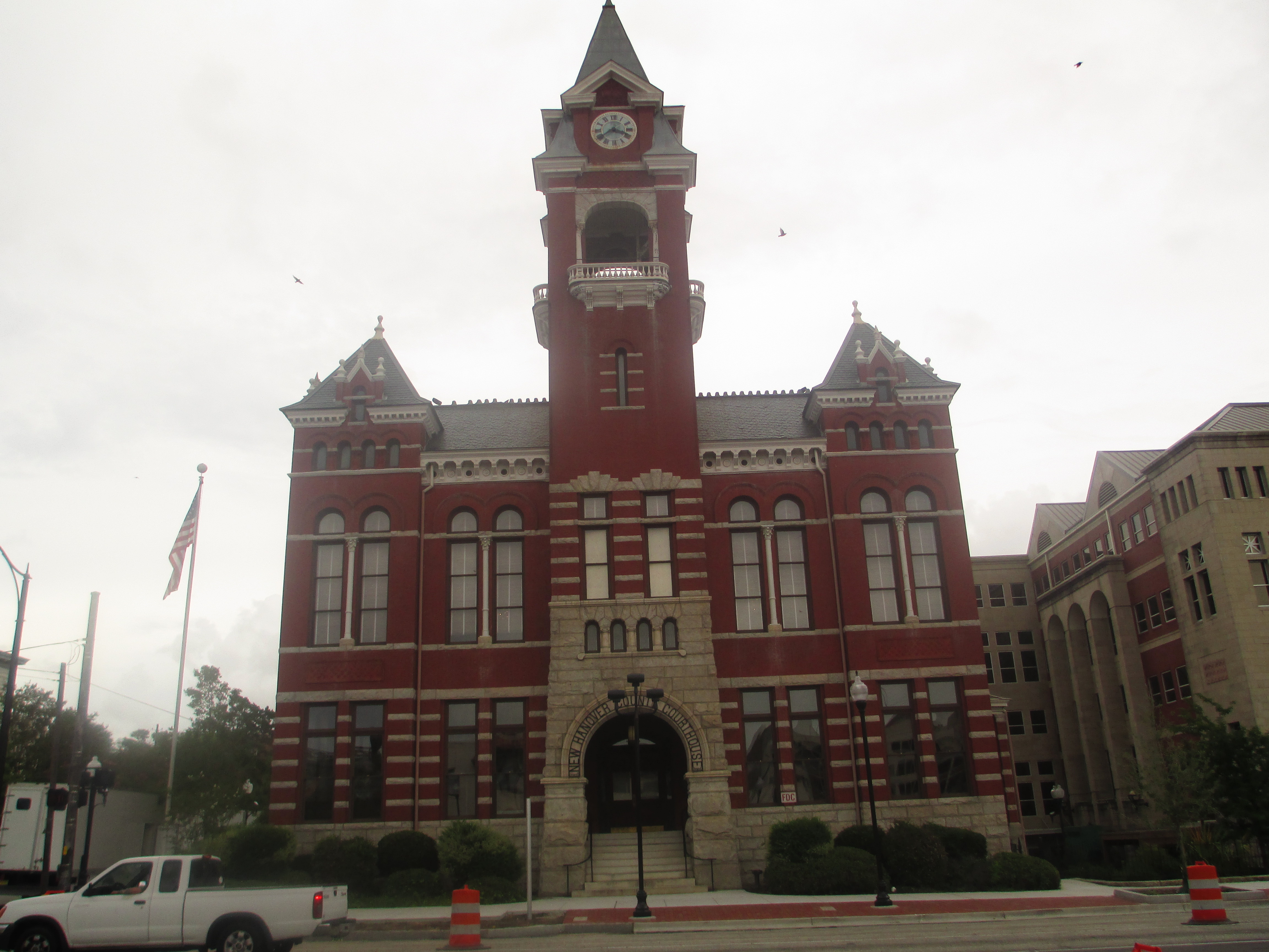 I took photo with Canon camera of New Hanover County Courthouse in Wilmington, NC.